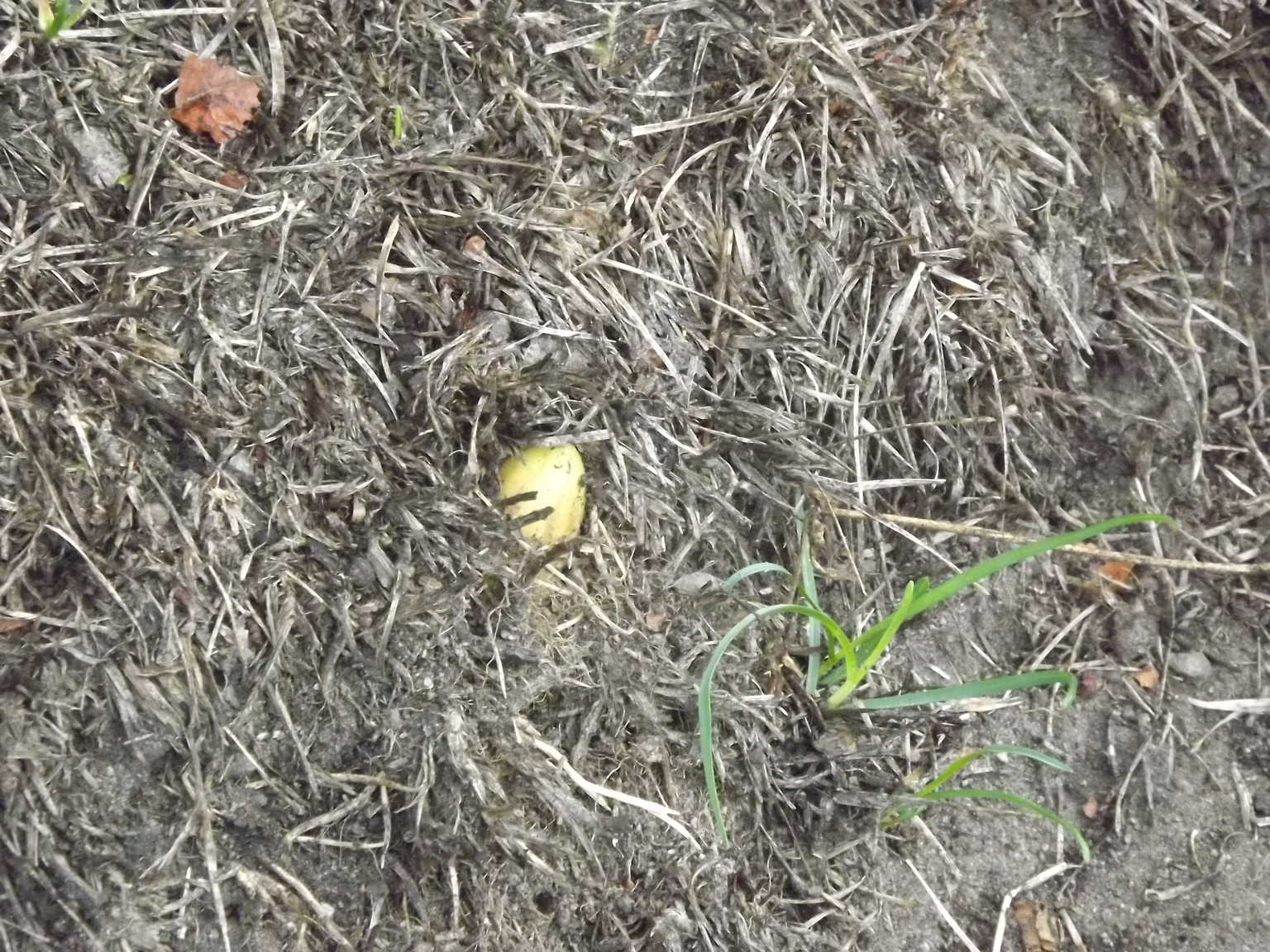 Squirrel hiding an acorn near Turku cathedral. Ready!